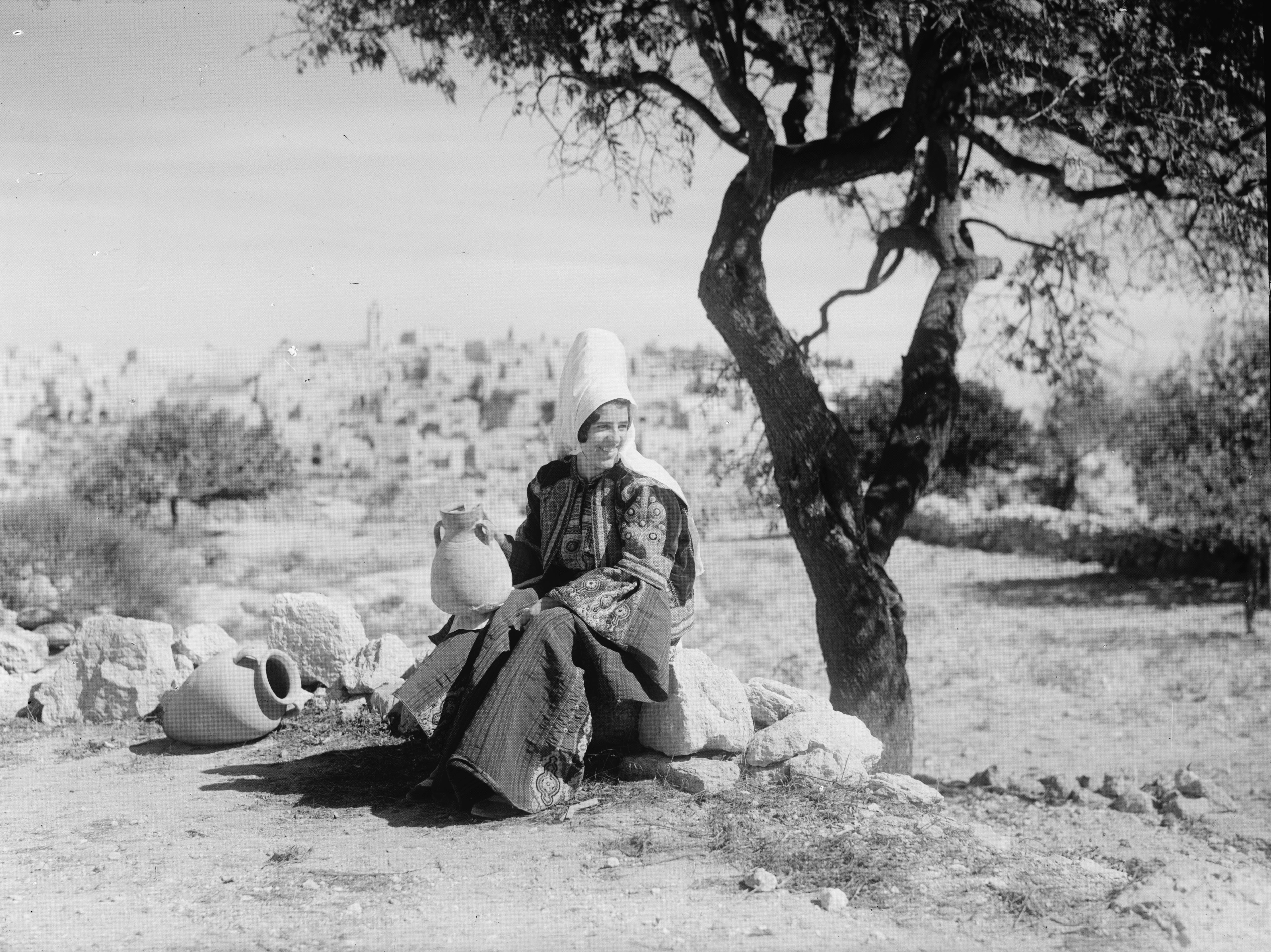 Bethlehem woman with jar seated under almond tree. Bethlehem in background.